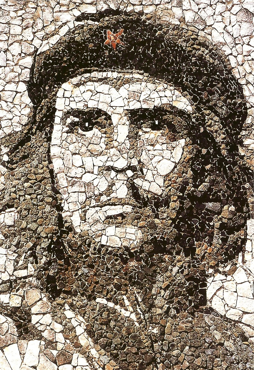 This is a public rock mosaic in honor of Che Guevara in the Guerrillero Heroico pose - along a street in Matanzas, Cuba.